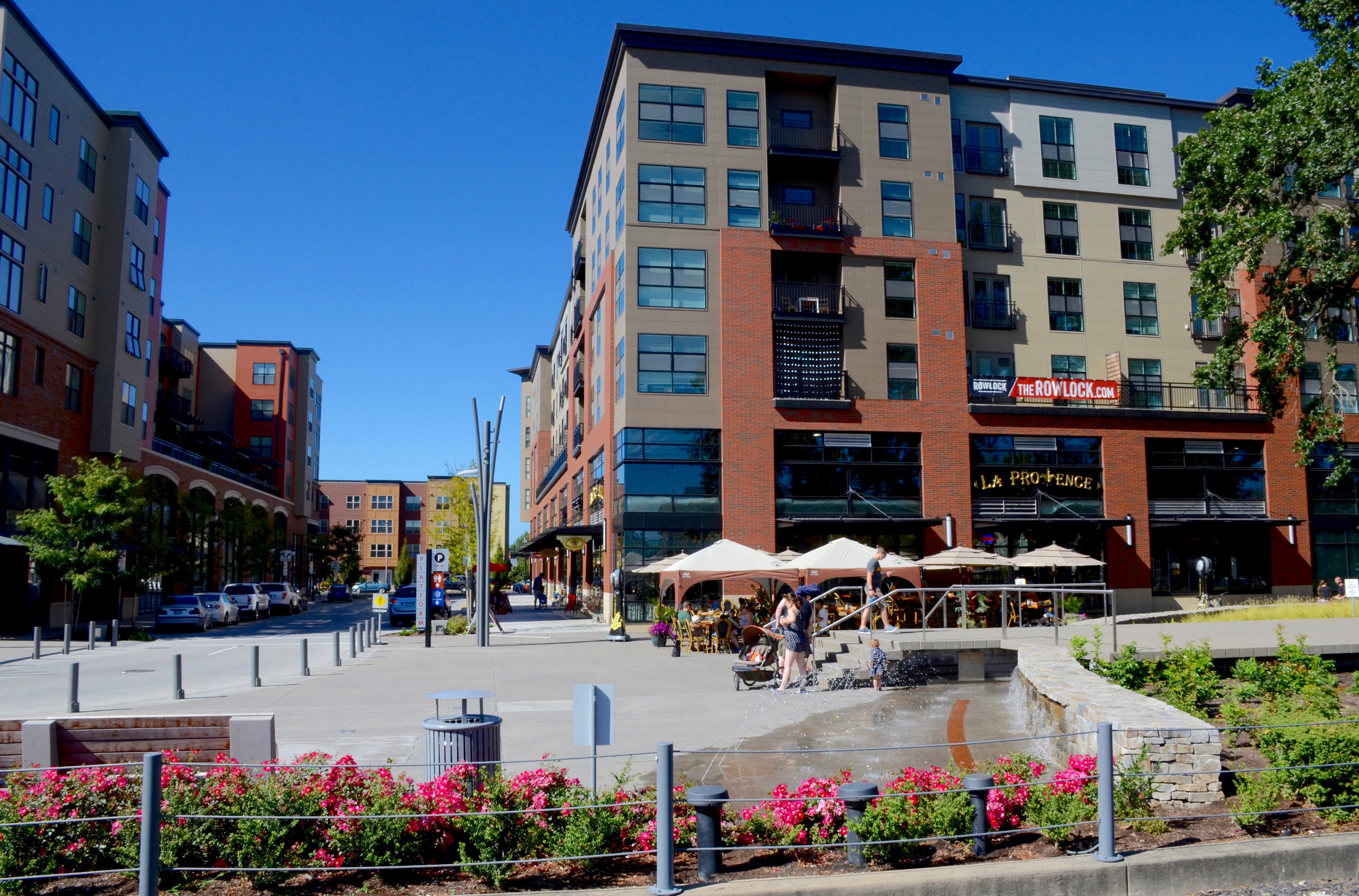 Orenco Station Plaza, in the Platform District of Hillsboro's Orenco Station neighborhood, viewed from the MAX light rail station, looking north. In the righthand background is the mixed-use Rowlock apartment building, with La Provence restaurant at street level, and in the foreground is a splash pad (water fountain designed for people to play in).